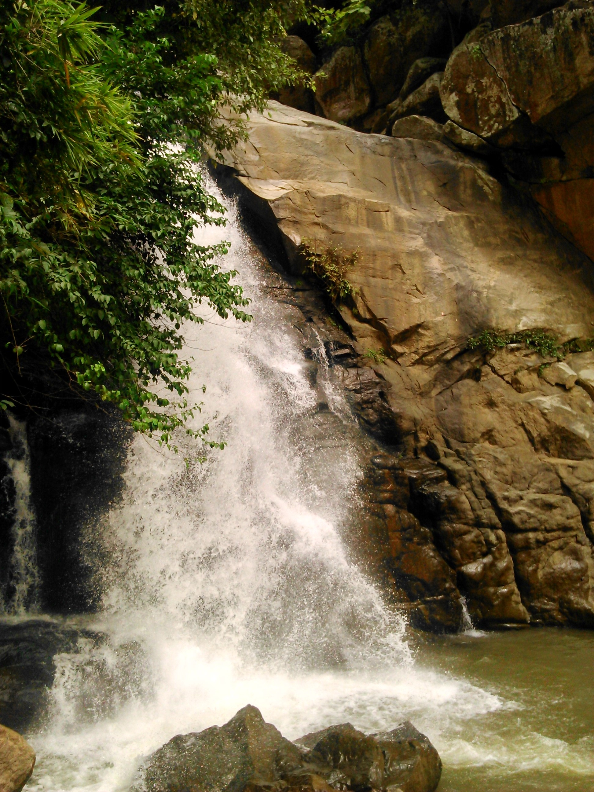 waterfall